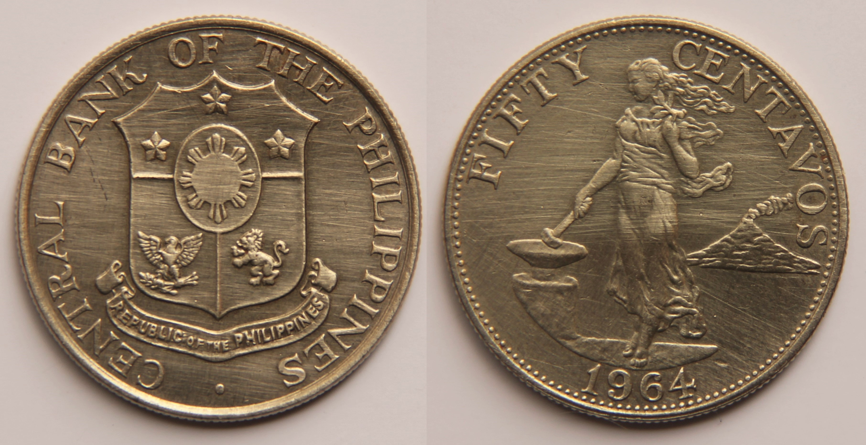 50 Philippines Centavos. Coin dates to 1964. Front (Obverse) of the coin, reads the denomination of the coin and year of minting on the periphery with a female standing beside hammer and anvil in the center. The Reverse of the coin reads Central Bank of the Philippines’ name and the Coat of arms of Philippines displayed in the center. Coin made of Copper-Nickel-Zinc alloy and the edges are reeded.